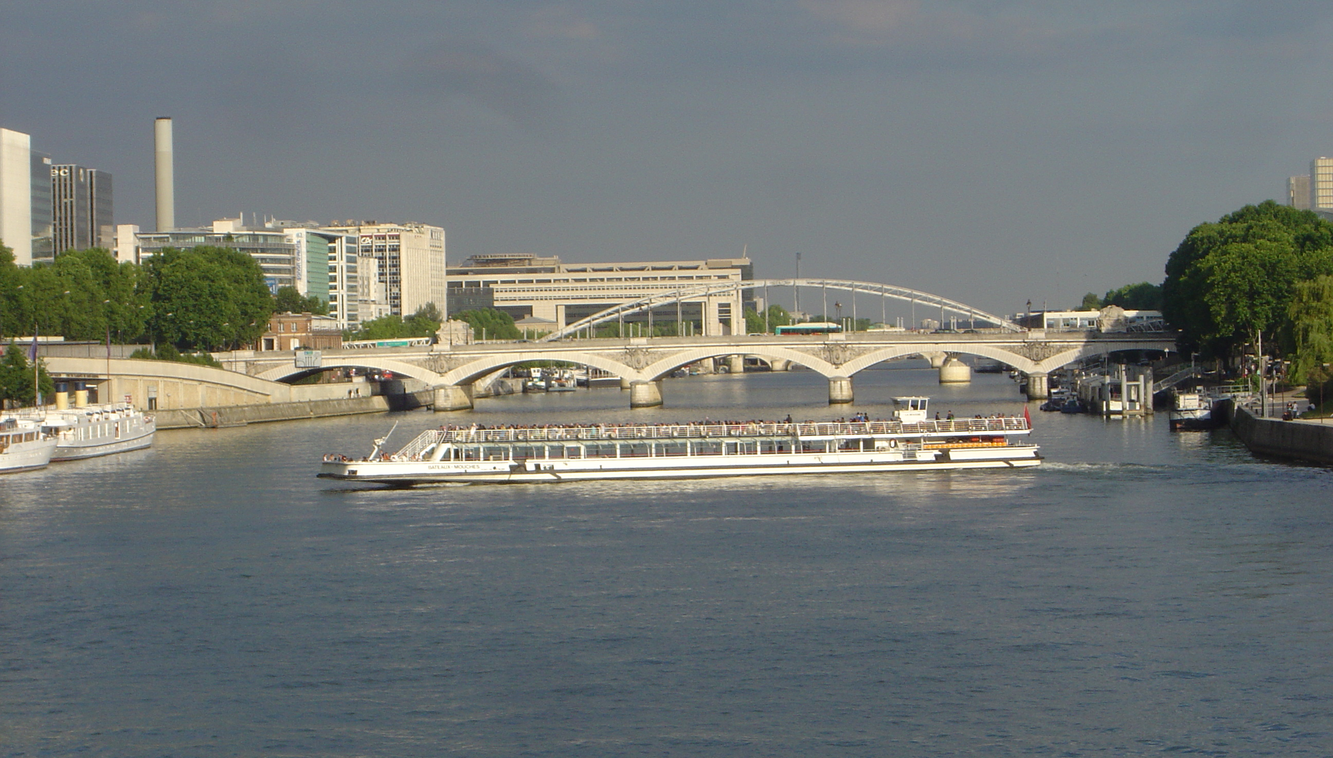 Fly boat doing a U-turn on the Seine in Paris near Pont d'Austerlitz.